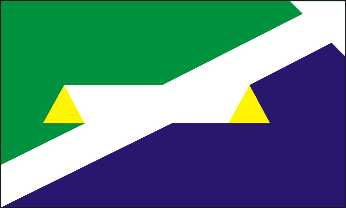 Flag of the city of Fishers, IN.